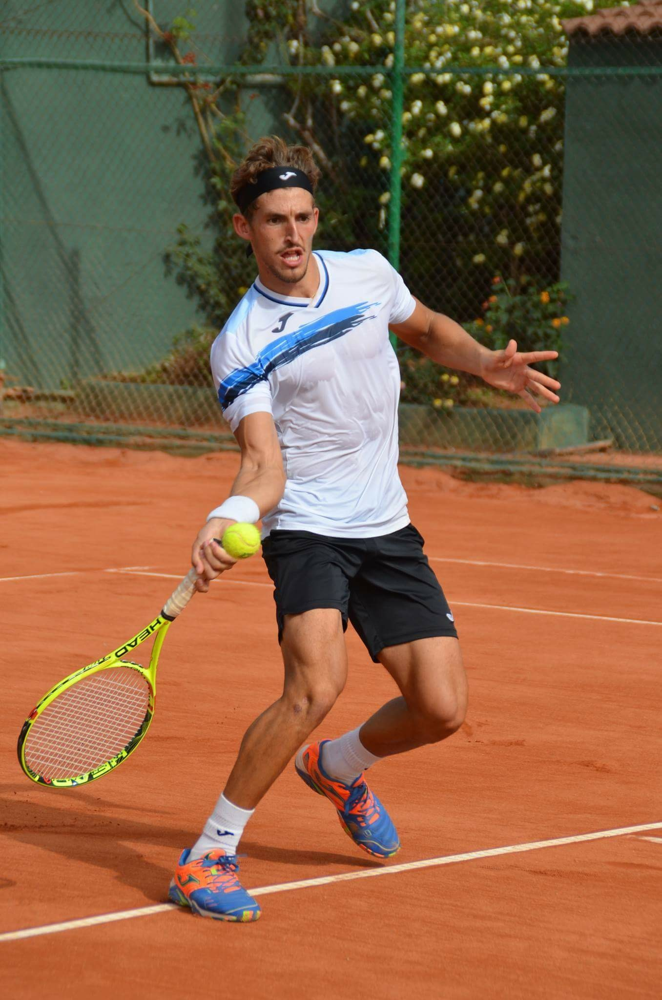 Mario en pleno partido golpeando la pelota